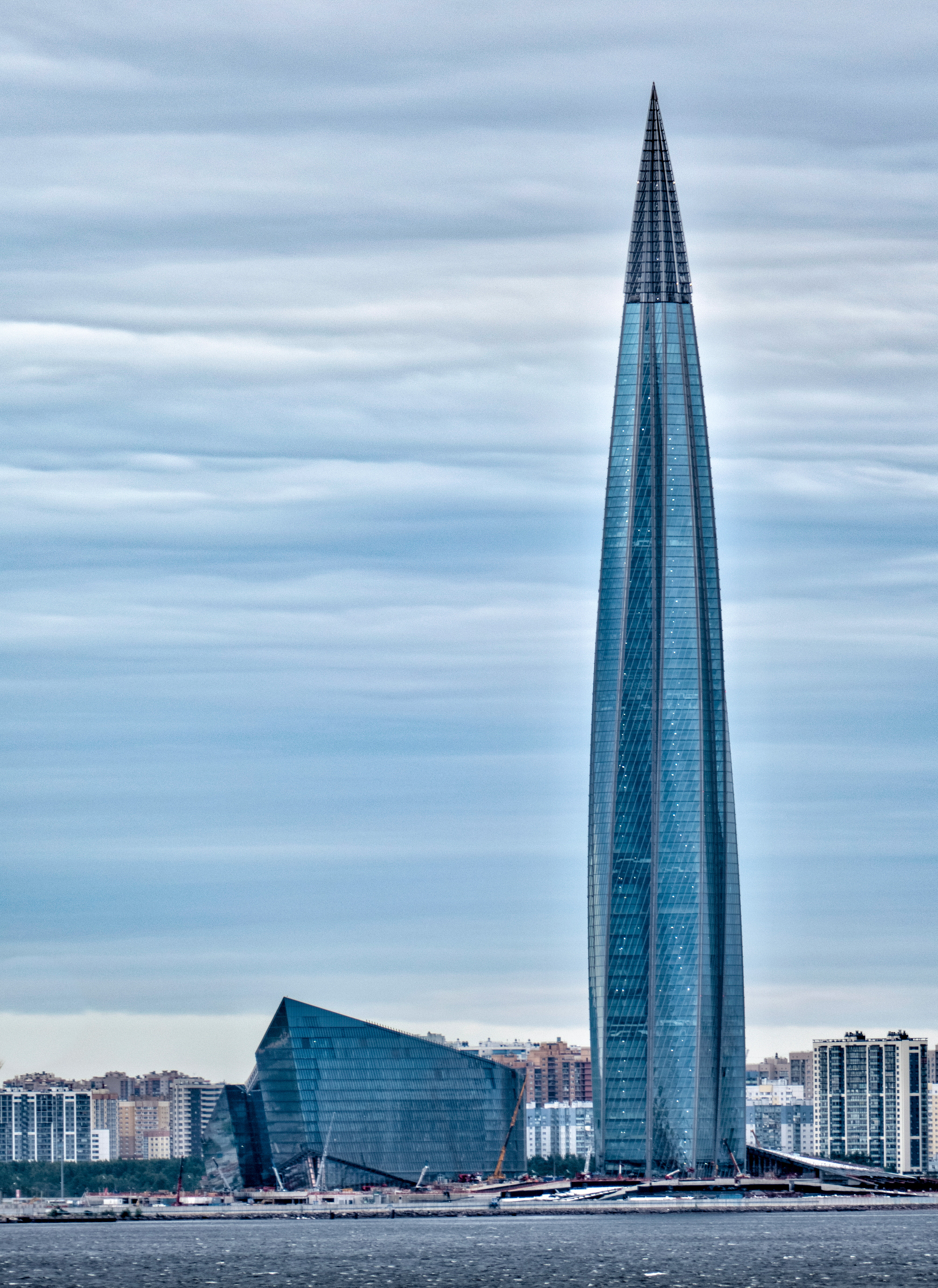 The Lakhta Center is an 87-story skyscraper built in the outskirts of Lakhta in Saint Petersburg, Russia. Standing 462 metres (1,516 ft) tall, the Lakhta Center is the tallest building in Europe, the tallest building in Russia, and the 14th-tallest building in the world.